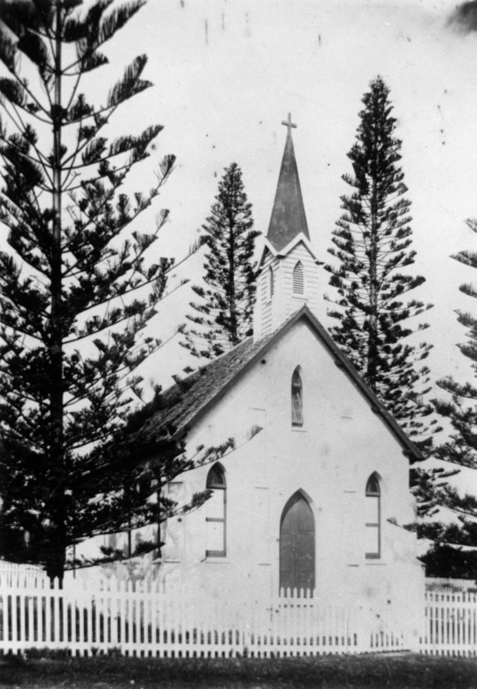 St. Paul's Church of England, Cleveland, ca. 1905. This church is on the corner of Cross and North Streets and was erected in 1874. (Description supplied with photograph.).